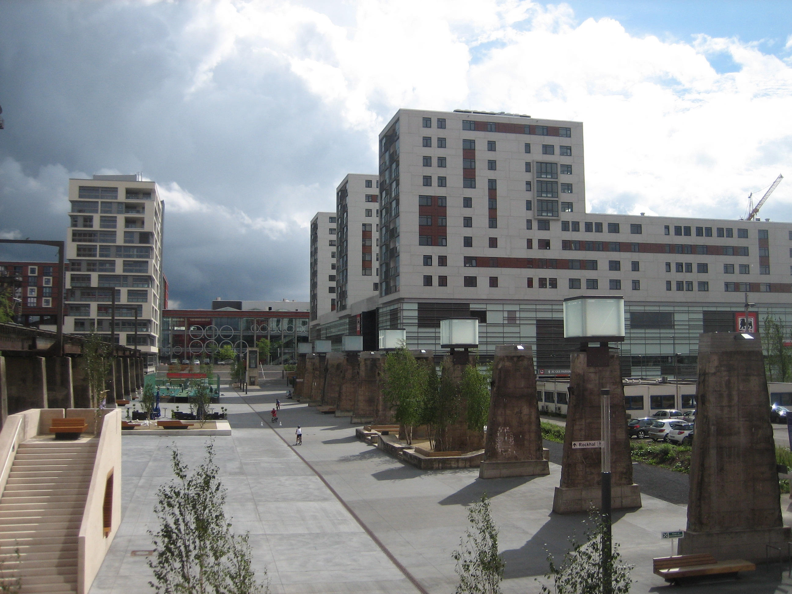 Place de l'Académie in Belval, Luxembourg; August 2011.